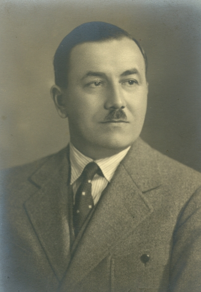 Picture of Dragutin Radimir